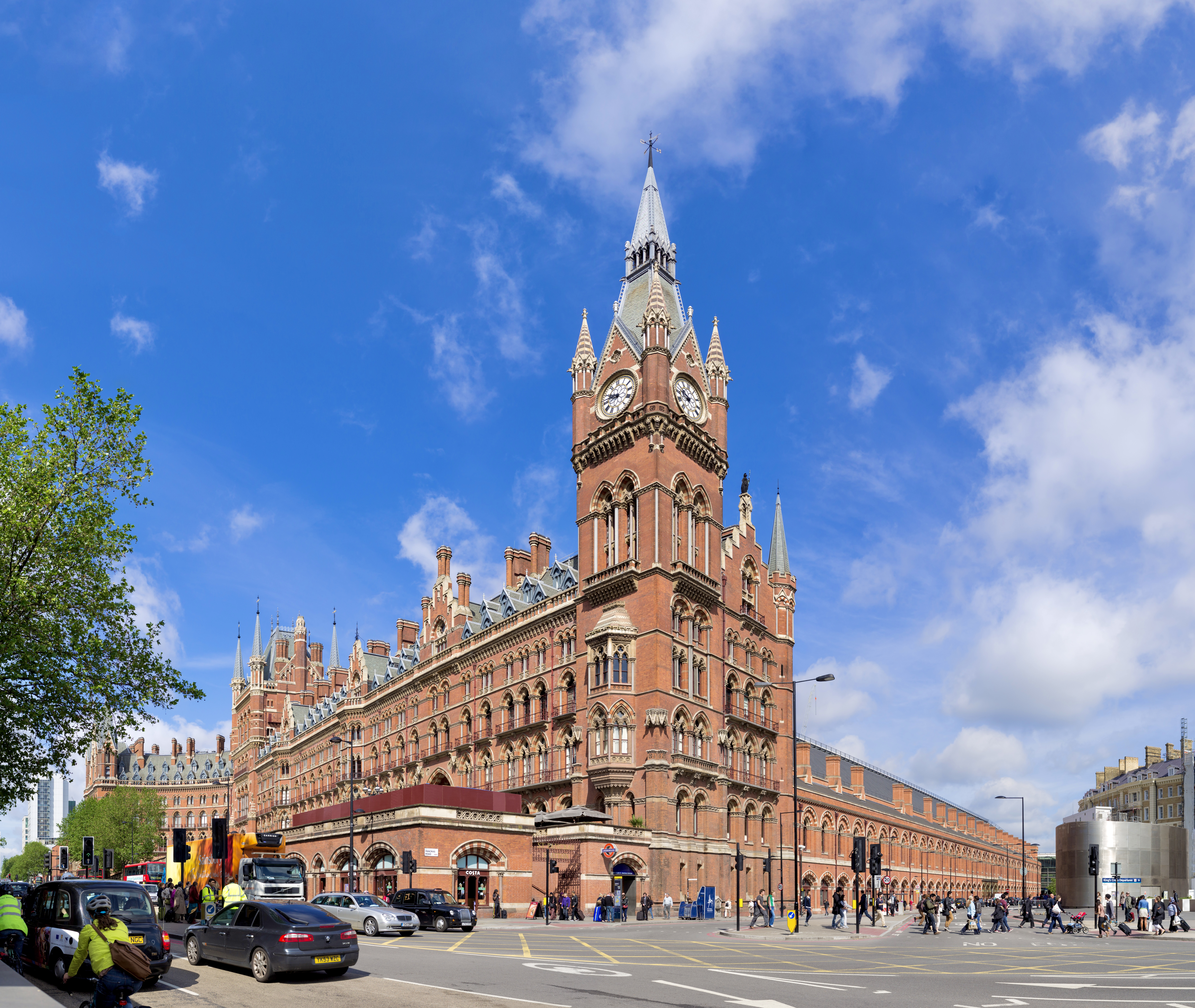 London's St Pancras railway station at the corner between Euston road and Pancras road, next to London King's Cross railway station. It is composed of 23 landscape photographs in six rows, each taken with a 30m lens on a Sony A33 camera; F8; 1/320s; ISO 100. The photographs were stitched together using Hugin and blended with Smartblend and Photoshop.